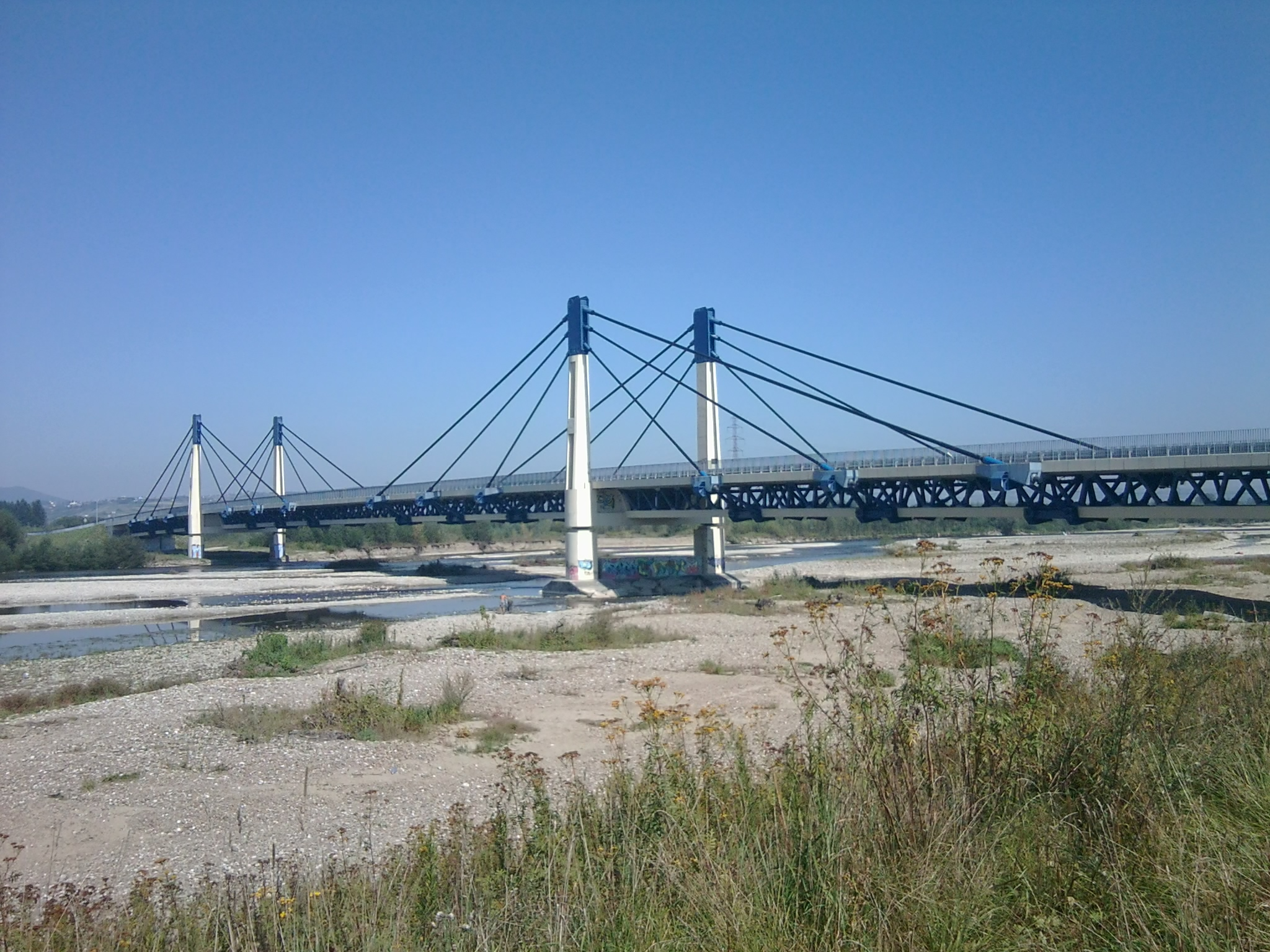 Bridge of Saint Kinga in Stary Sącz